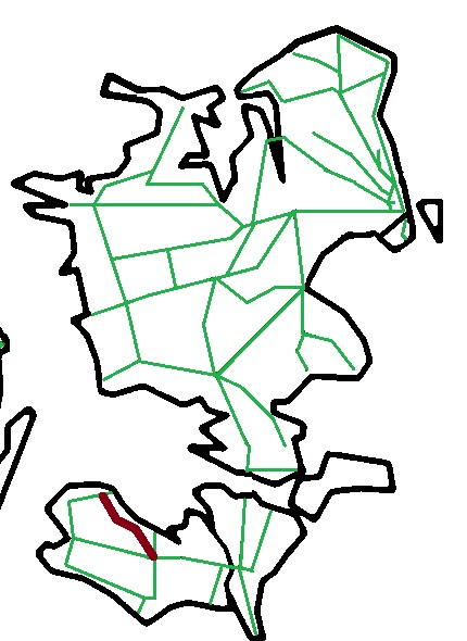 Map of railways on Zealand, Lolland and Falster in Denmark with the private railway Maribo-Torrig Jernbane in brown.